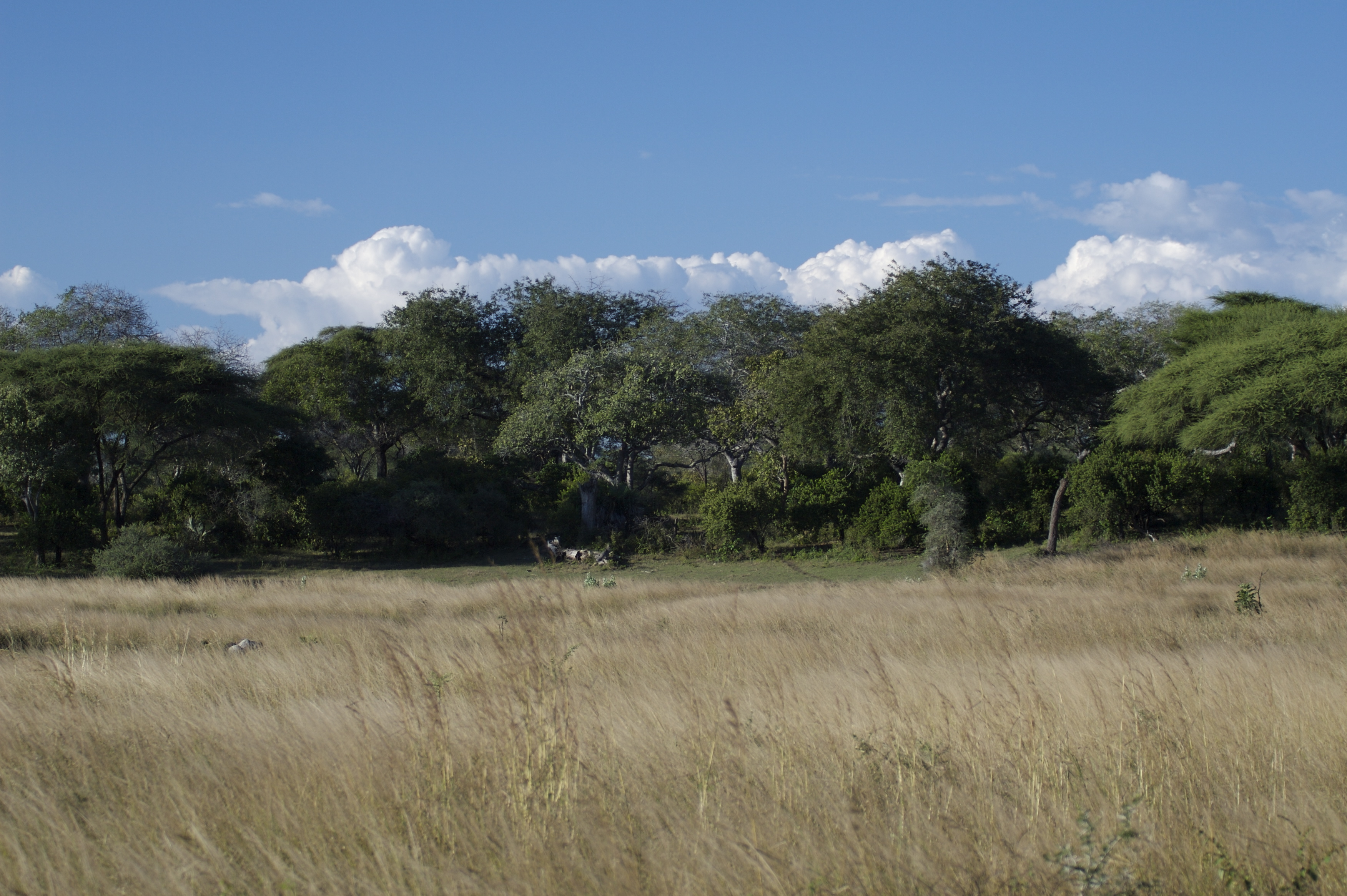 View of riverside